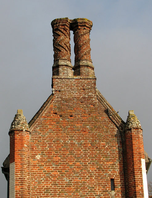 Abbey Farm, Old Buckenham- Old Priory hall chimneys. Abbey Farm now occupies the land of the Old Buckenham Priory..